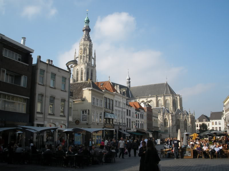 Great church seen from Grote Markt square